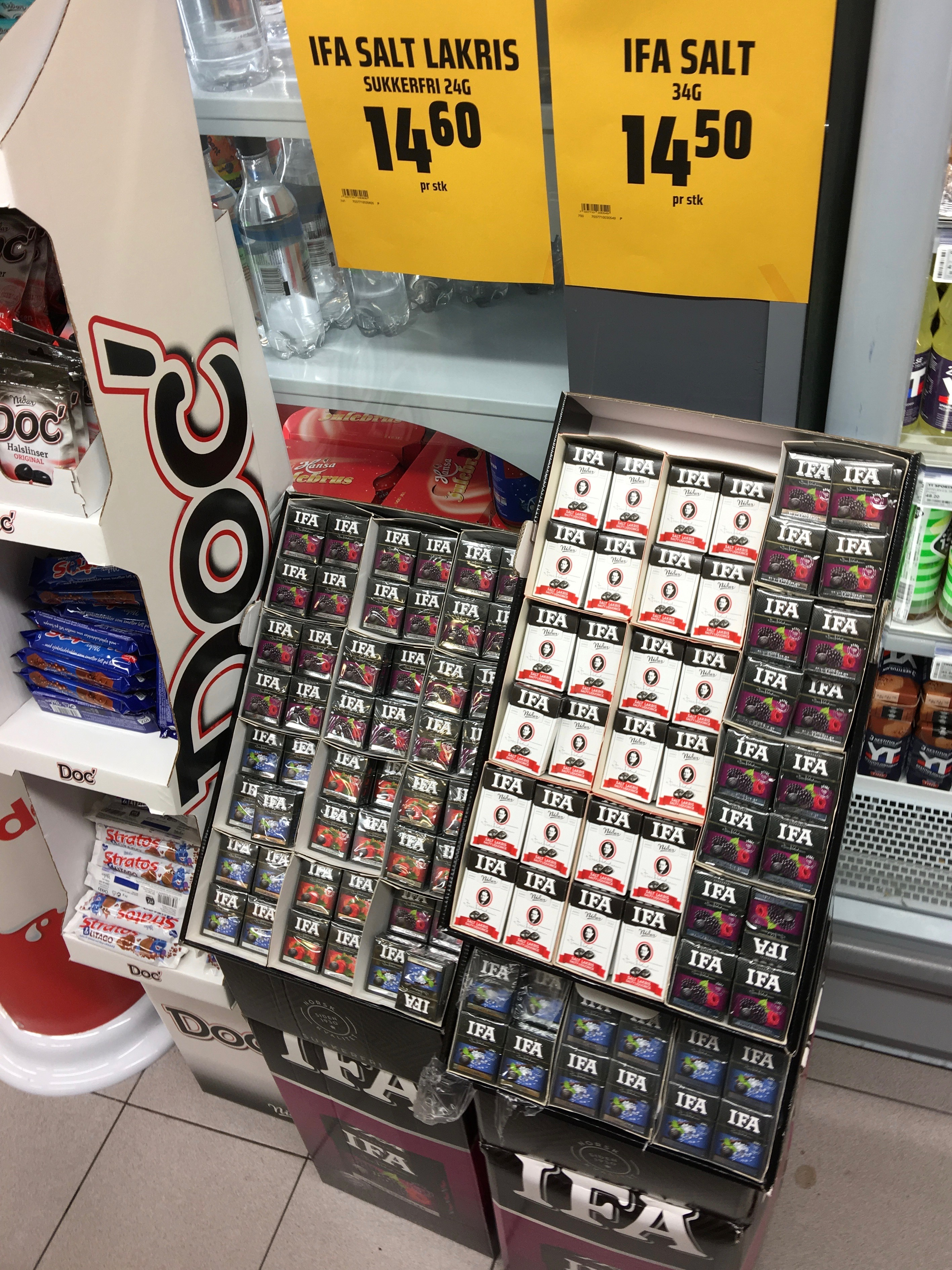 Throat lozenge (cough drops, Nidar IFA saltpastiller etc.) in Extra Coop supermarket in Bergen Storsenter, a shopping mall in Bergen, Norway. October 2017.